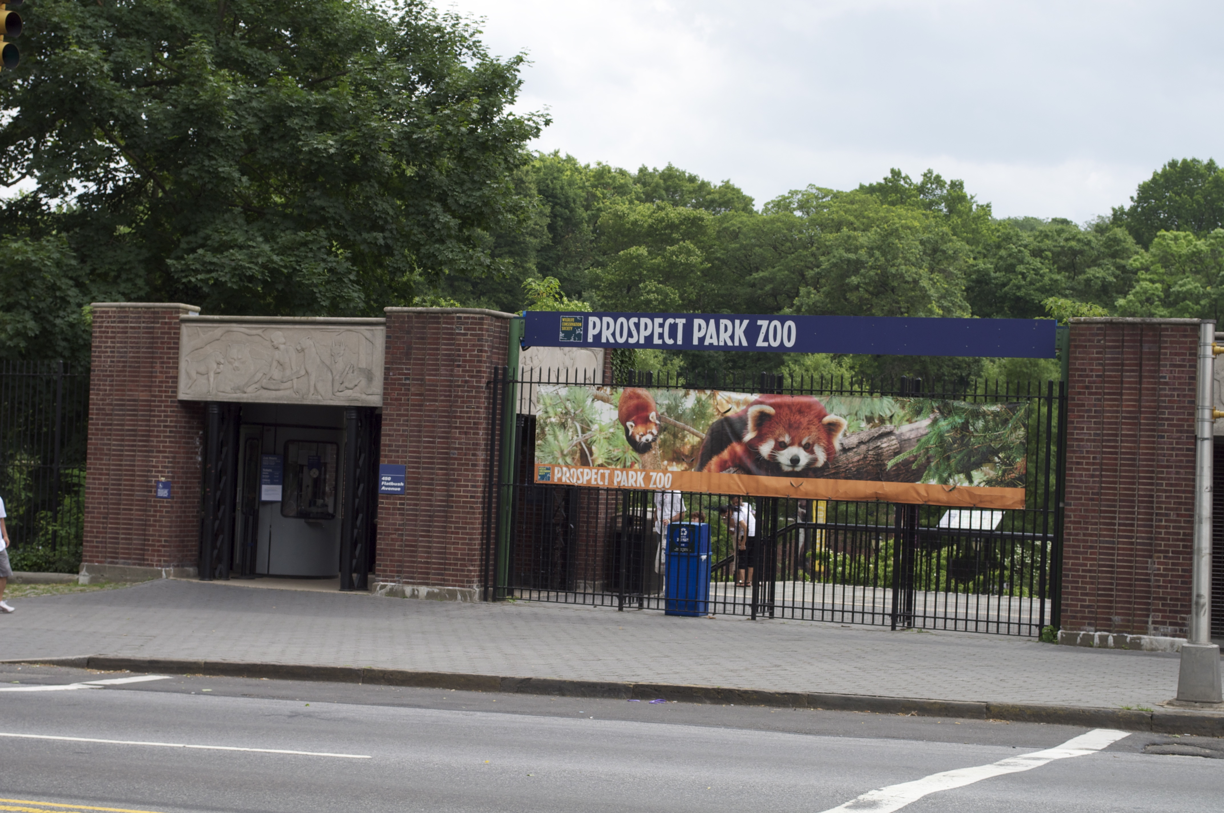 Prospect Park Zoo, Brooklyn, New York City, USA.